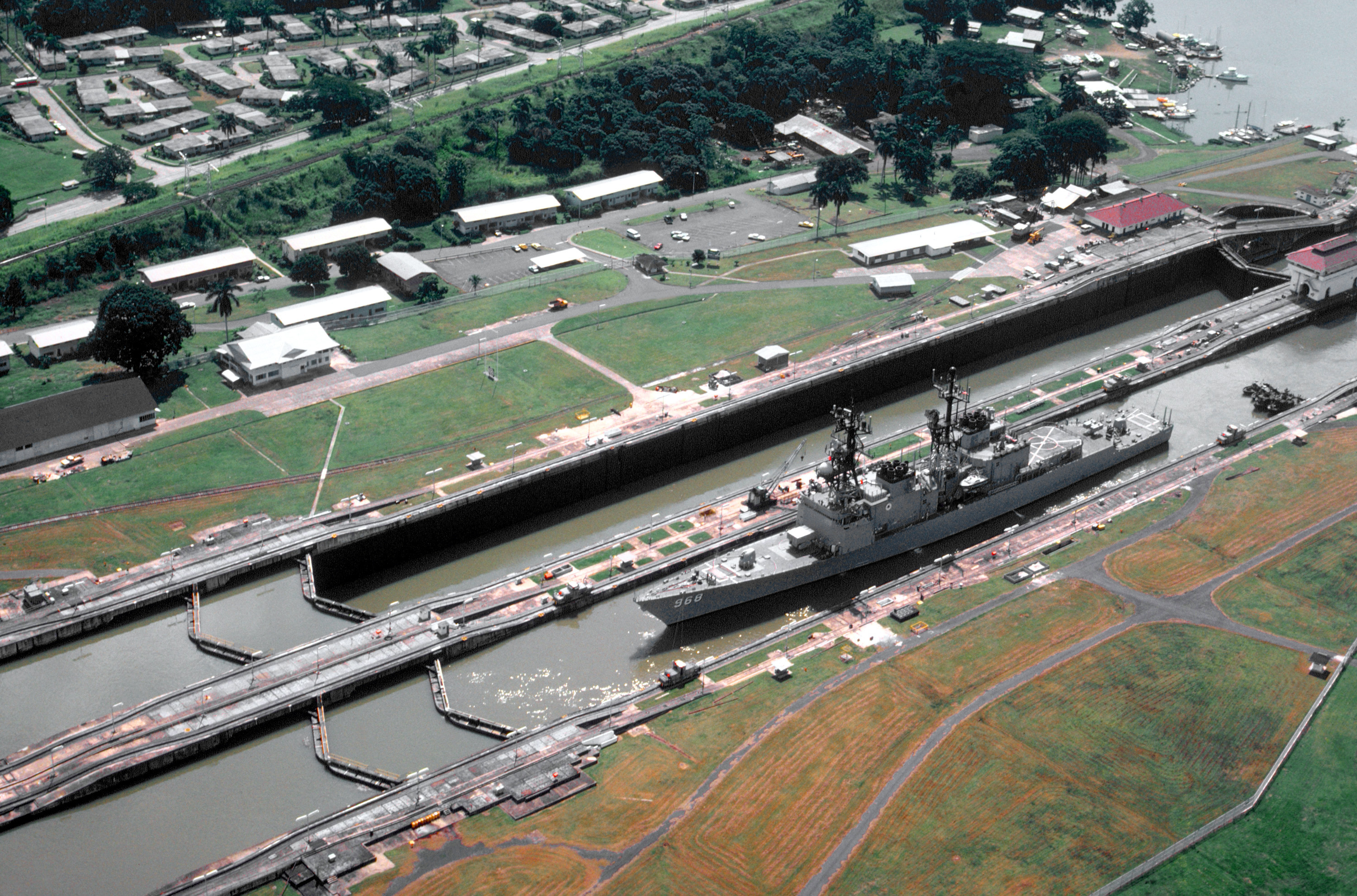 An aerial port bow view of the destroyer USS ARTHUR W. RADFORD (DD-968) navigating the Panama Canal during exercise Unitas XXI, 6/1/1980